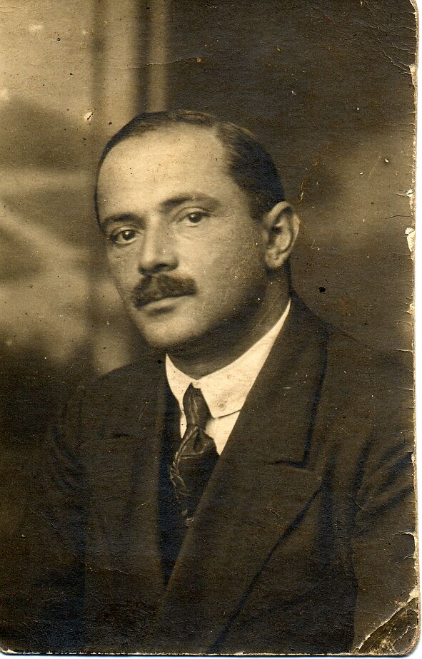 Formal portrait of Jakob Ehrlich of Vienna, Austria ca. 1930.